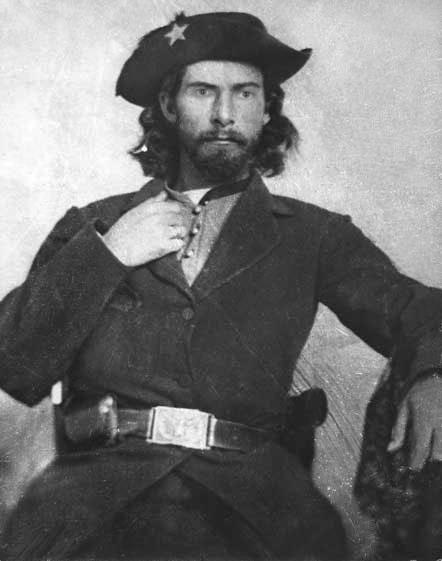 Bloody Bill Anderson, published in "Three years with Quantrell; a true story" (1914)